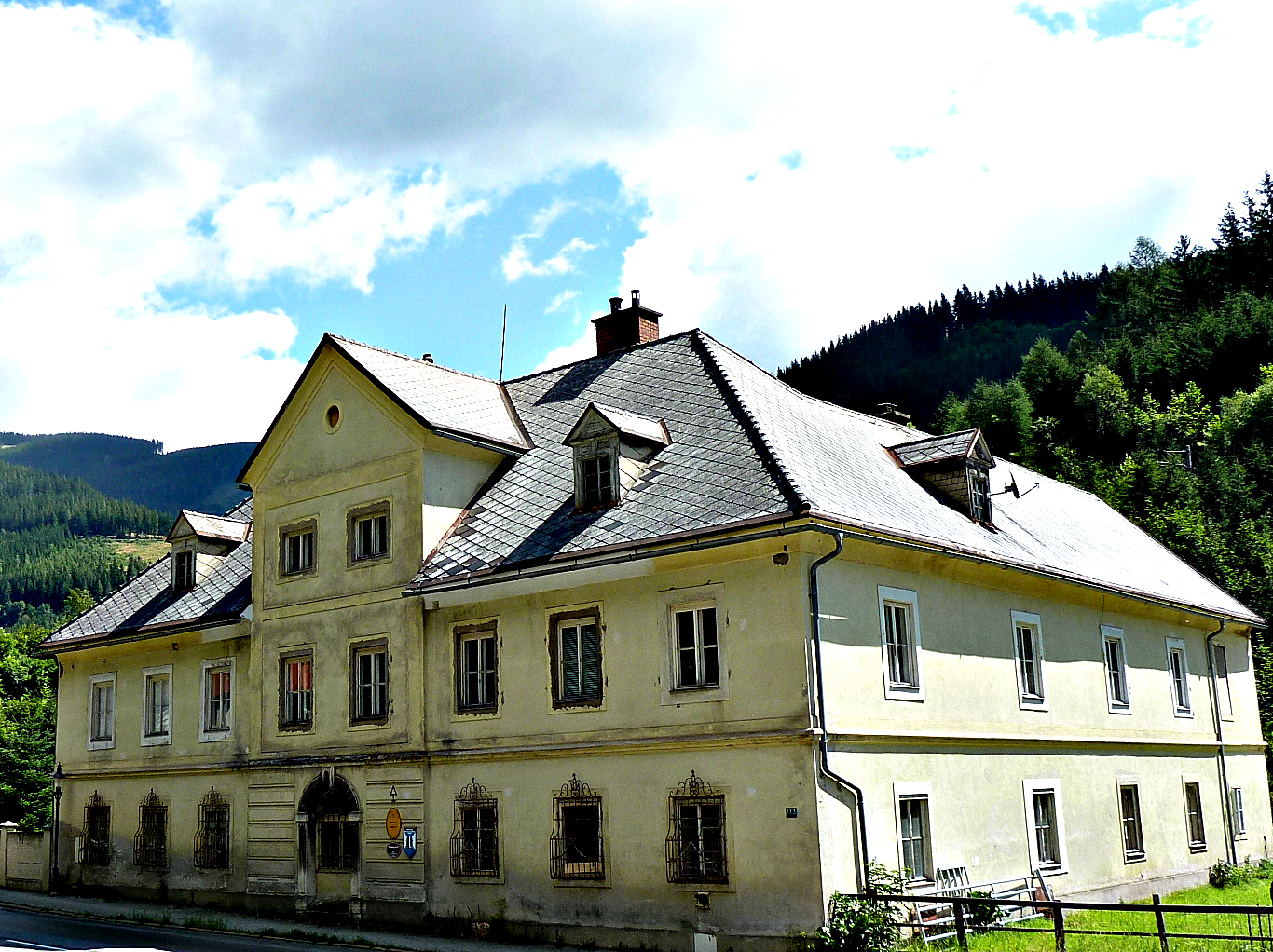 Manor House Blast Furnace IX